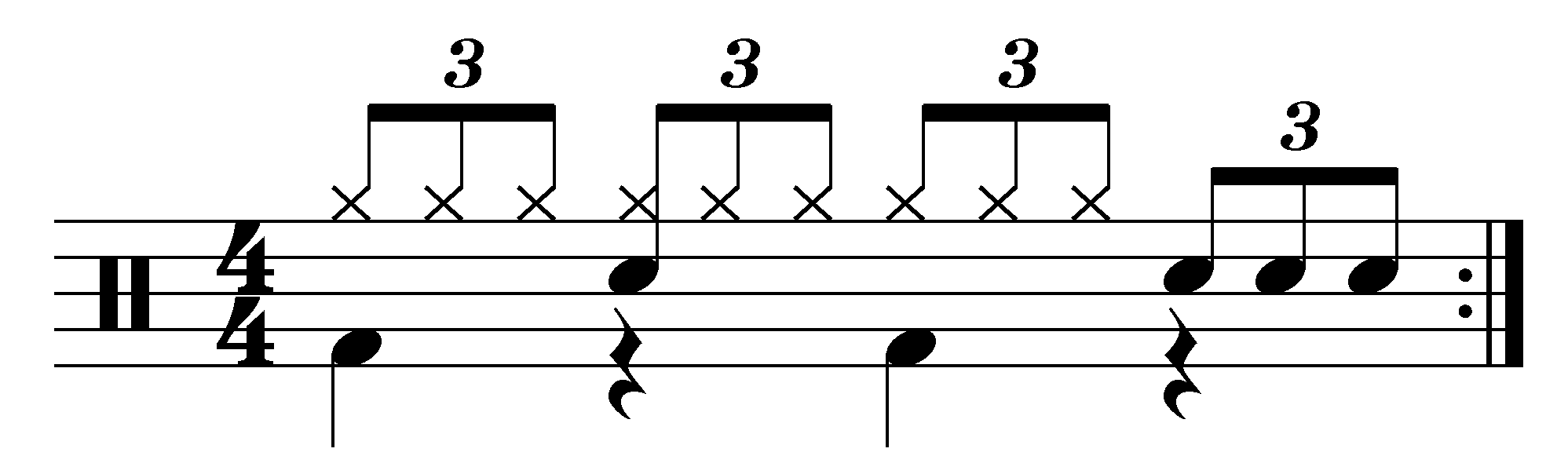 "Texas two-step" drum pattern associated with the dance step.